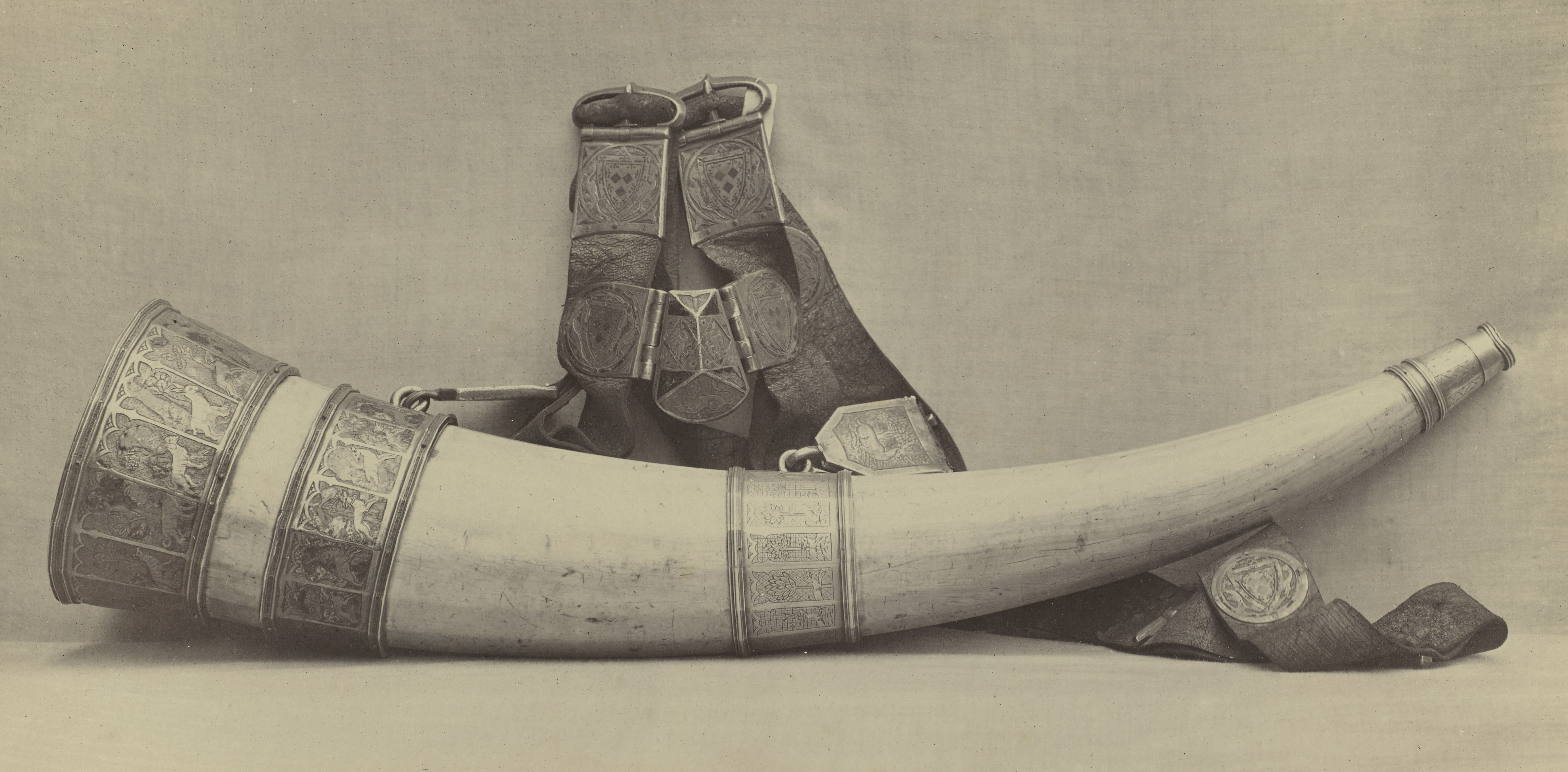 "The Bruce Horn"or Tenure Horn of Savernake Forest; Charles Thurston Thompson (English, 1816 - 1868); London, England; December 10, 1862; Albumen silver print; 18.7× 36.9 cm (7 3/8 × 14 1/2 in.); 84.XB.766.5.43